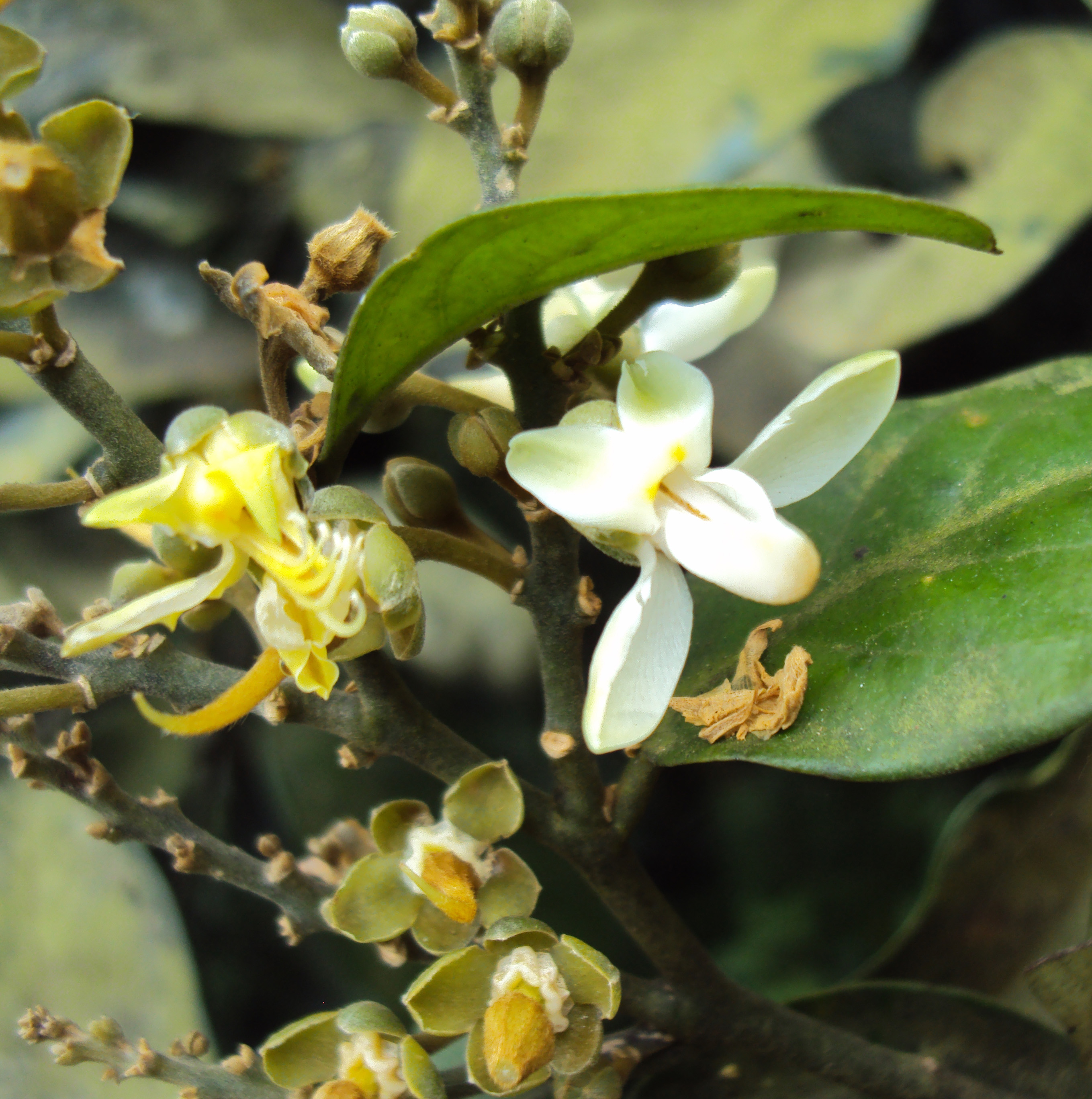 Xanthophyllum arnottianum